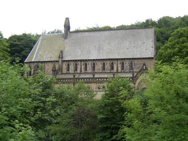 Copley Church, Greetland. St Stephen's Church was built between 1865 and 1870 by Edward Ackroyd for his employees at Copley Mills. It is in a French style, with a polygonal apse. It had to be built over the river in Greetland as the Rector of Halifax would not allow it to be built in his parish. The architect was W H Crossland.